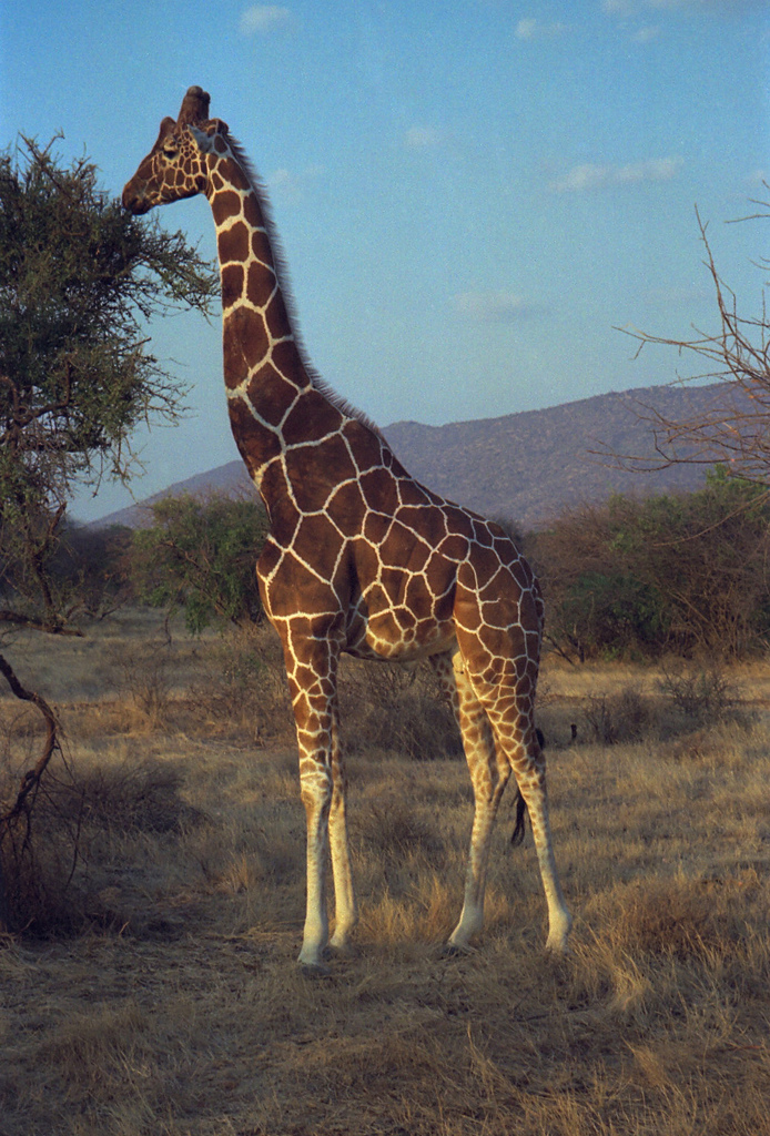 Reticulated giraffe in Samburu National Reserve, Kenya 1993.1993 #147-3A Samburu reticulated giraffe